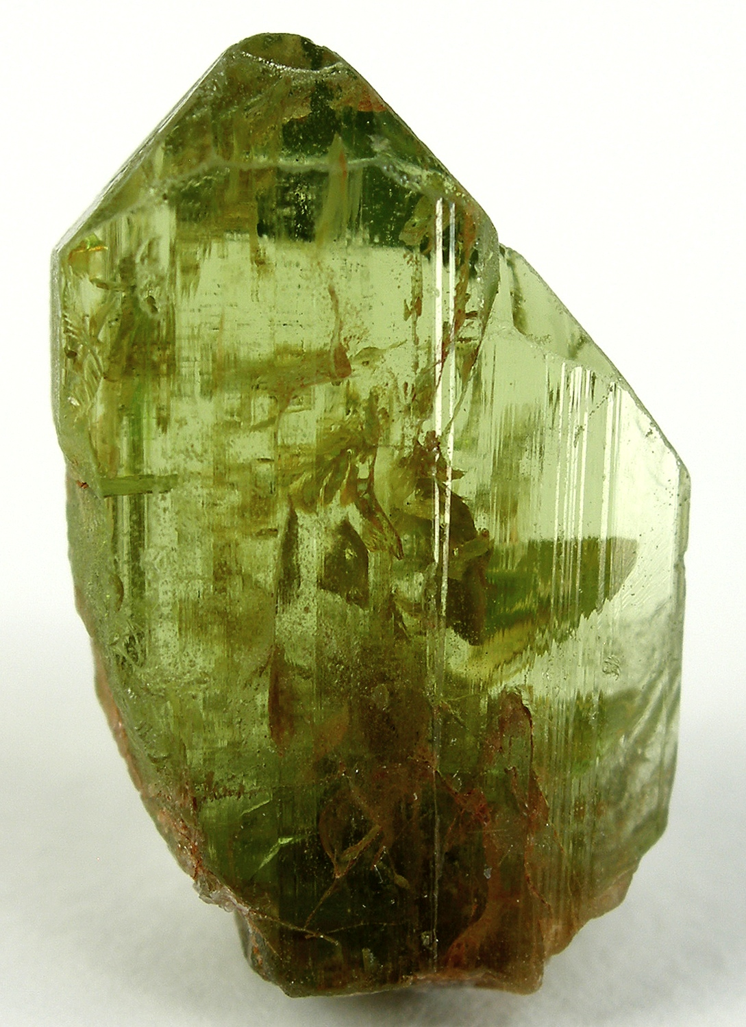 Forsterite, Olivine Locality: St John's Island (Zagbargad; Zabargad; Zebirget; Seberged; Topazios), Red Sea, Egypt (Locality at ) Size: thumbnail, 1.8 x 1.4 x 0.6 cm Peridot A sharp, very gemmy, crystal from the OLD classic locality for gem peridot. Literally the oldest, perhapsÖ.dating back to the time of Cleopatra and the Egyptian Empires, anyhow. This island mine is now submerged underwater and inaccessible, gone forever. Specimes can still be obtained in old collections from time to time, and their combination of form, termination style, and olive color mark them as Egyptian as opposed to the modern Pakistani material. This is a superb thumbnail, large and gemmy, and complete all around. Formerly in the often-displayed gem thumbnails collection of Jim and Shelly Houran.